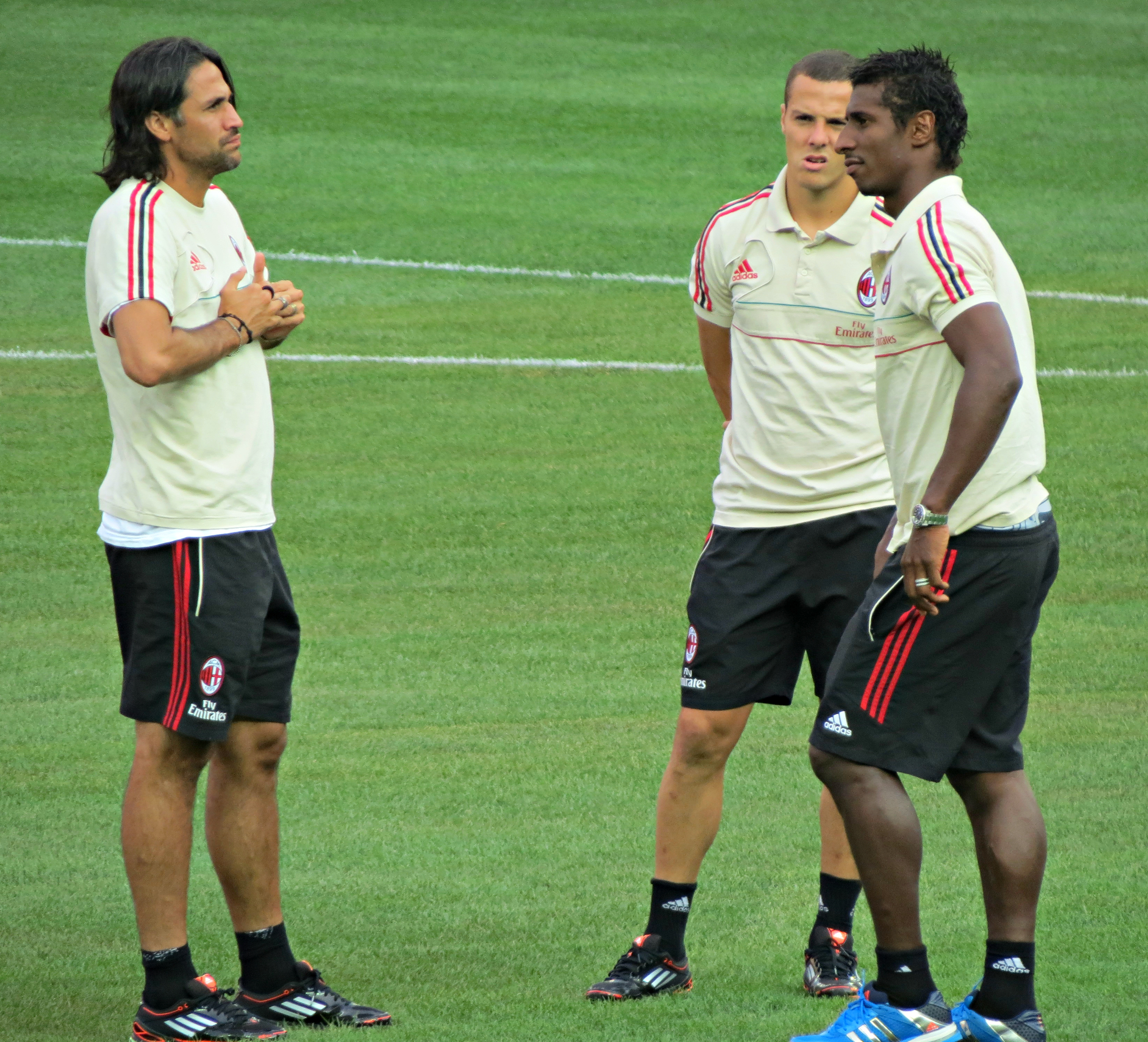 Mario Yepes and Kévin Constant of AC Milan.